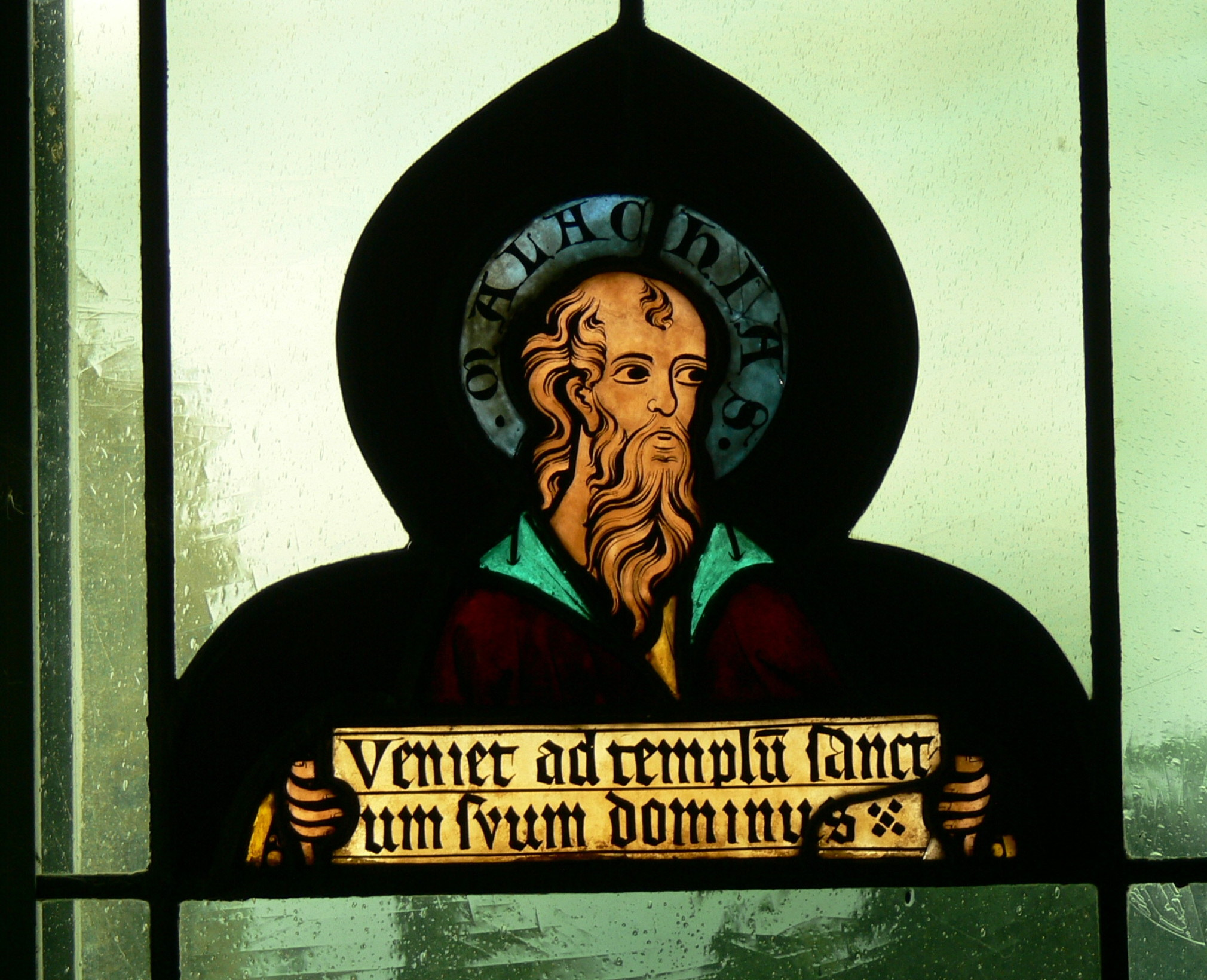 Lorch (Enns/Upper Austria). Basilica of Saint Lawrence: Gothic stained glass windows (1330) showing prophet Malachi and biblical quotation in Latin: "VENIET AD TEMPLUM SANCTUM SUUM DOMINUS" (Mal. 3,1).